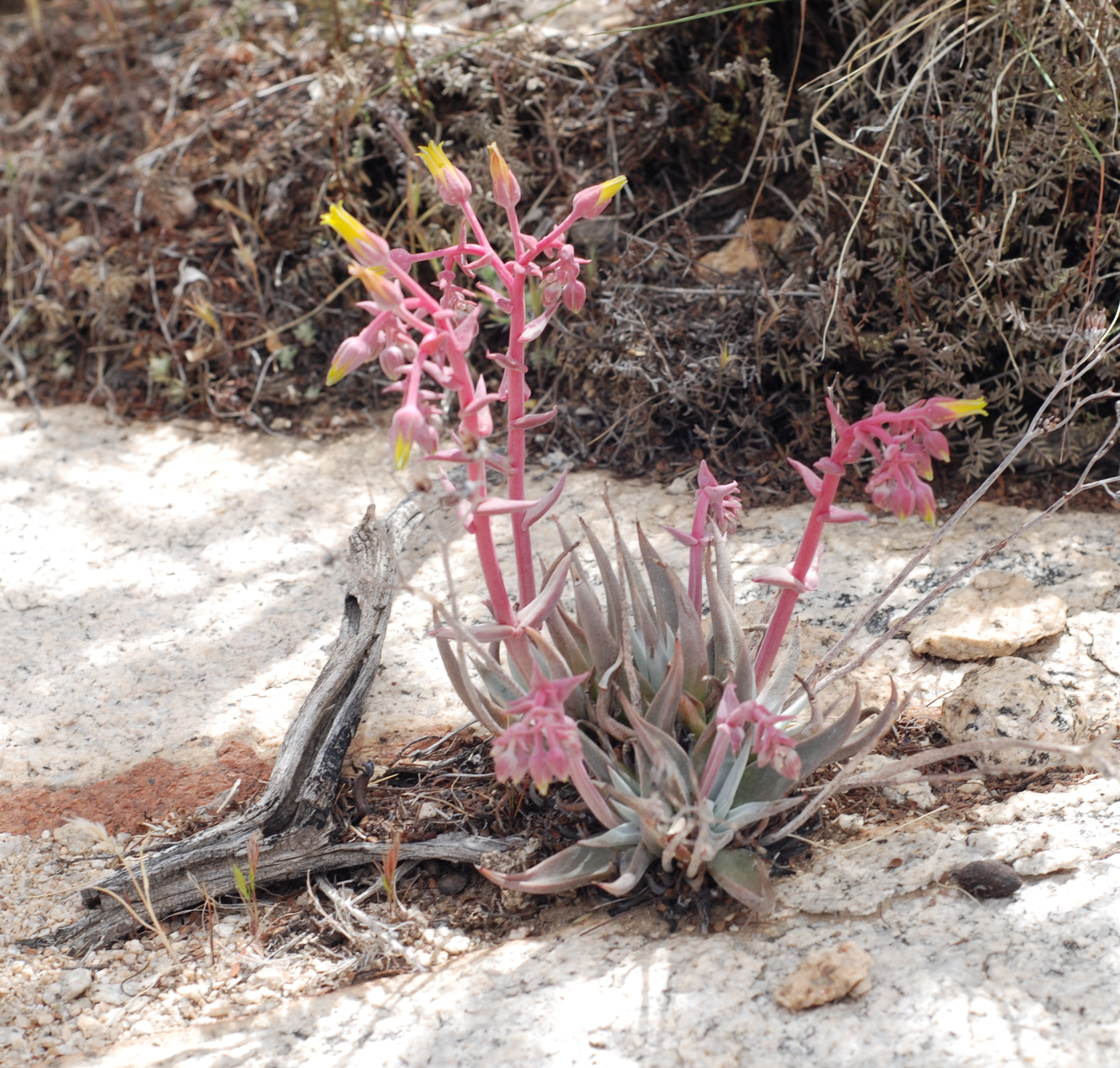 Flowering plants of Joshua Tree National Park: Panamint liveforever (Dudleya saxosa).